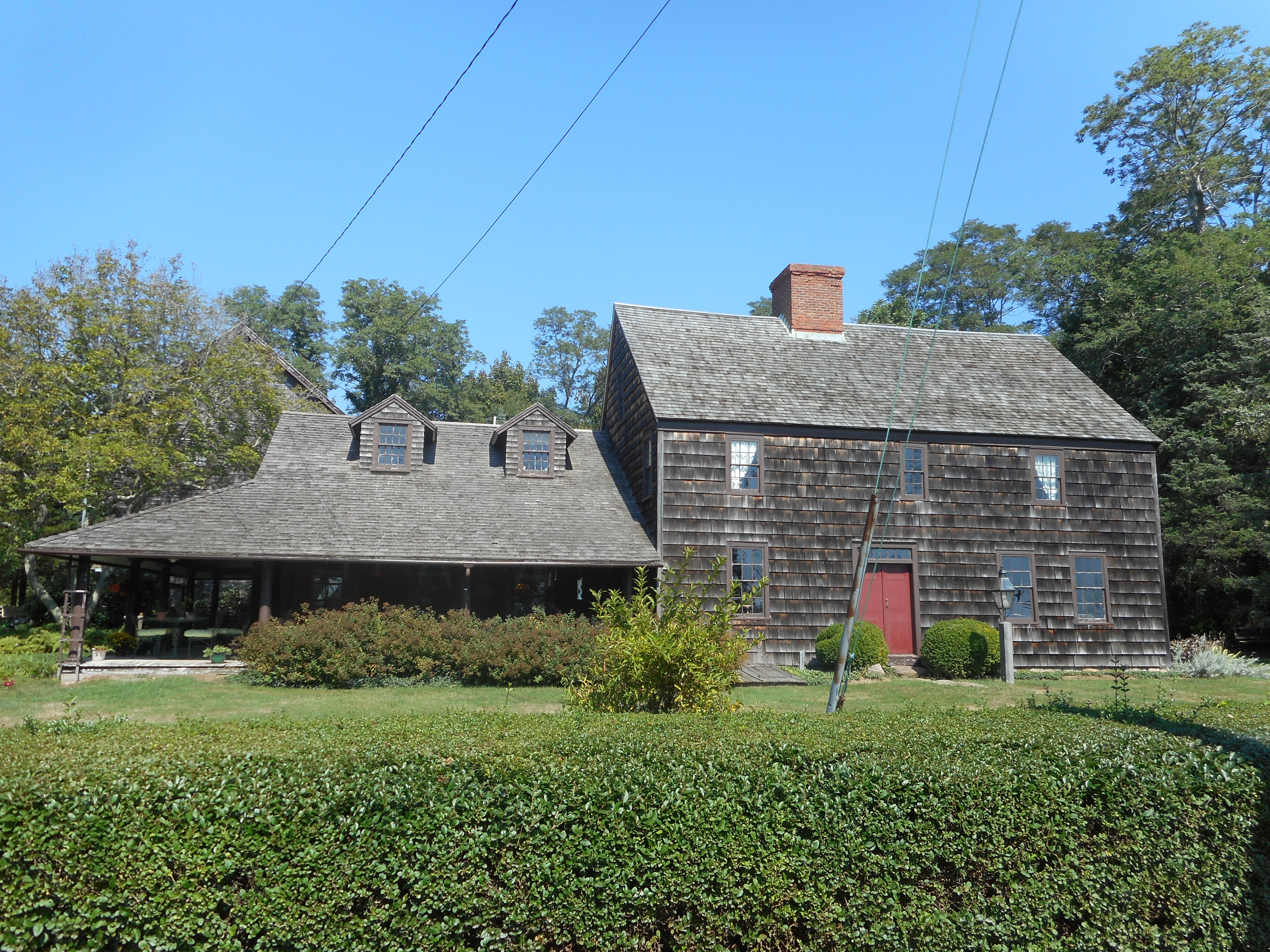 The 1656-built Peaken's Tavern, now known as the Terry-Mulford House on New York State Route 25, near one of the former segments of Main Road in Orient, New York. Listed on the National Register of Historic Places.